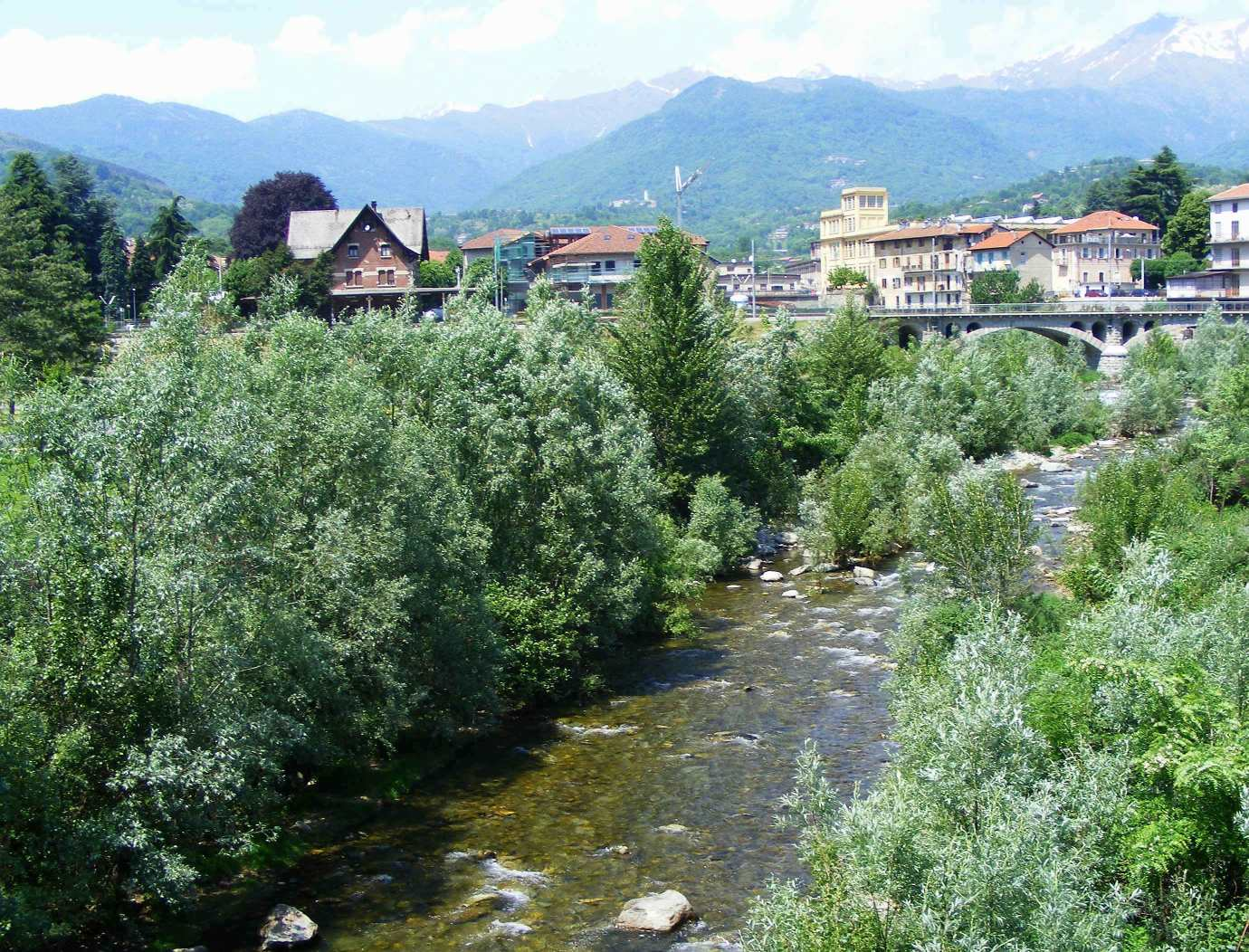 Tesso creek near Lanzo (TO, Italy)